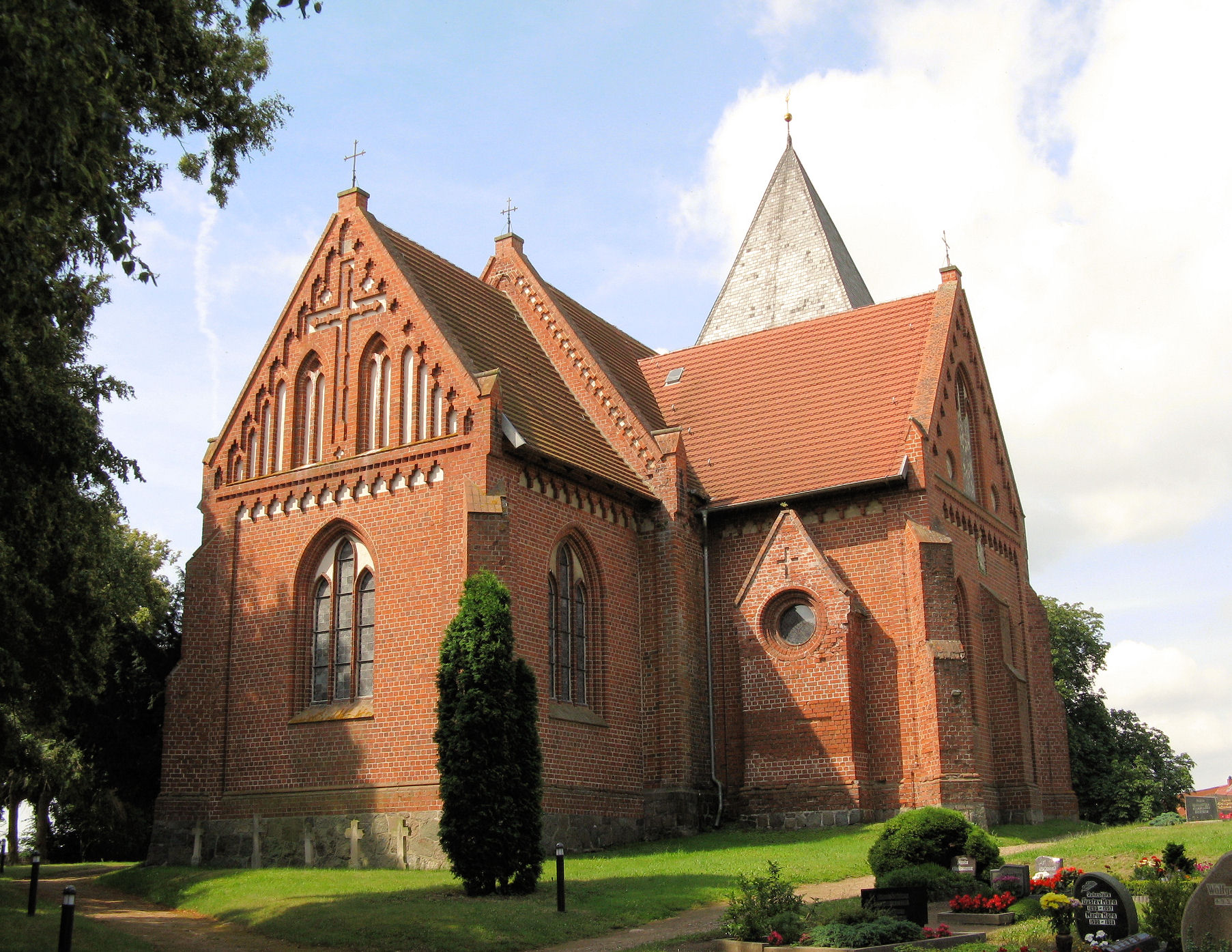 Church in Serrahn, disctrict Güstrow, Mecklenburg-Vorpommern, Germany